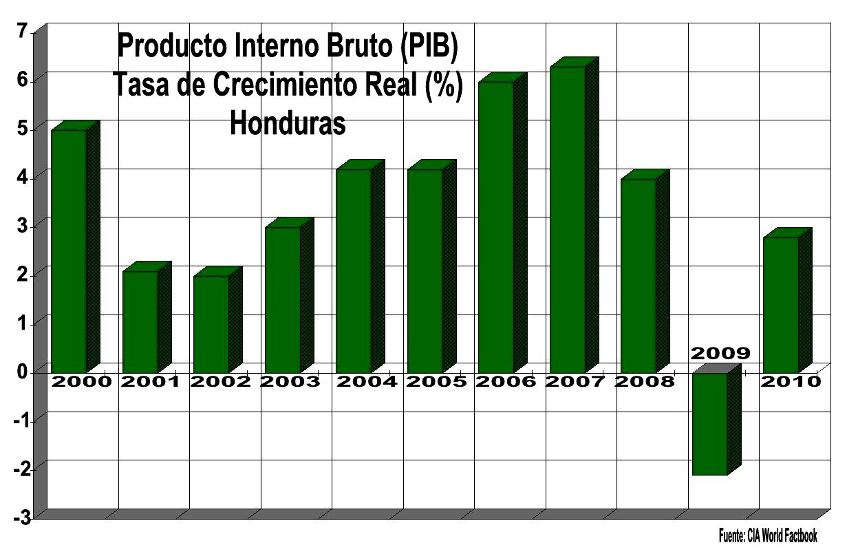 PIB de Honduras Tasa de Crecimiento Real 2000-2010